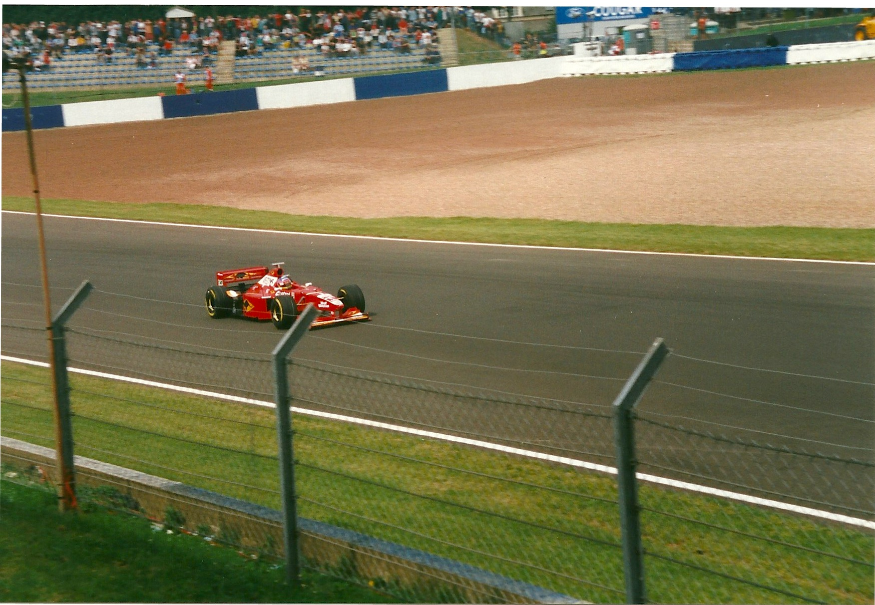 British Grand Prix 1998